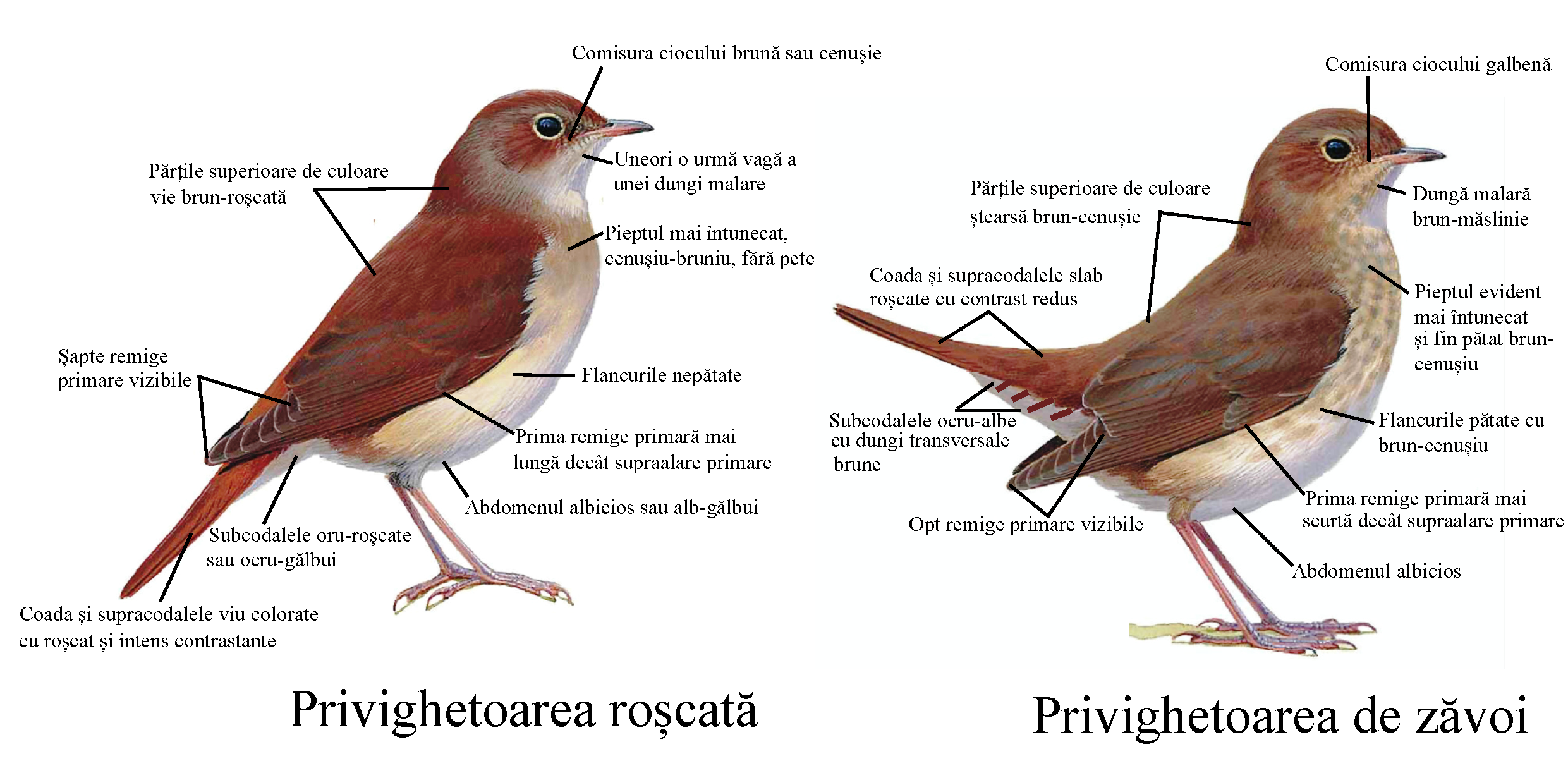 Luscinia megarhynchos and Luscinia luscinia